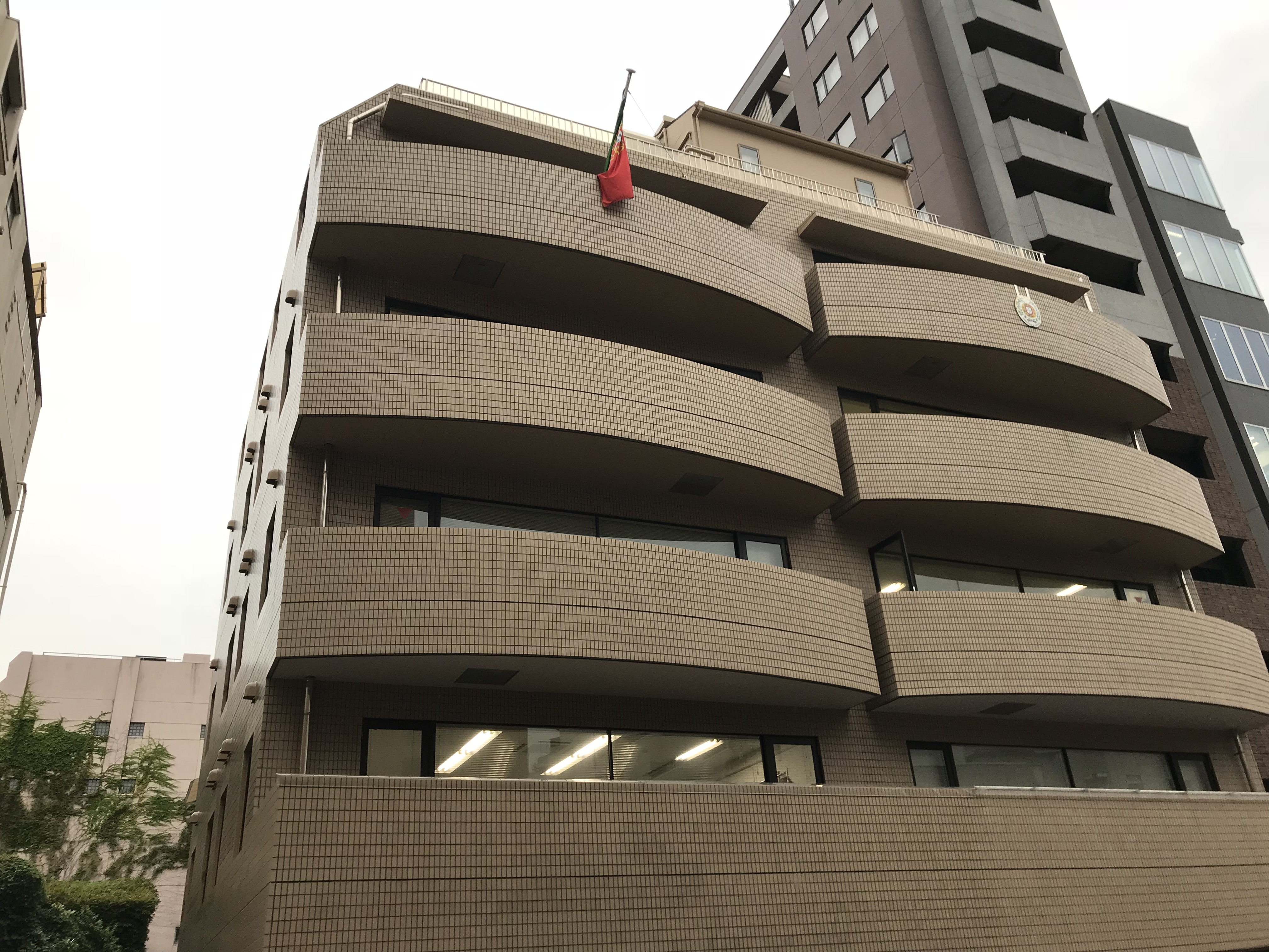 Embassy of Portugal in Tokyo